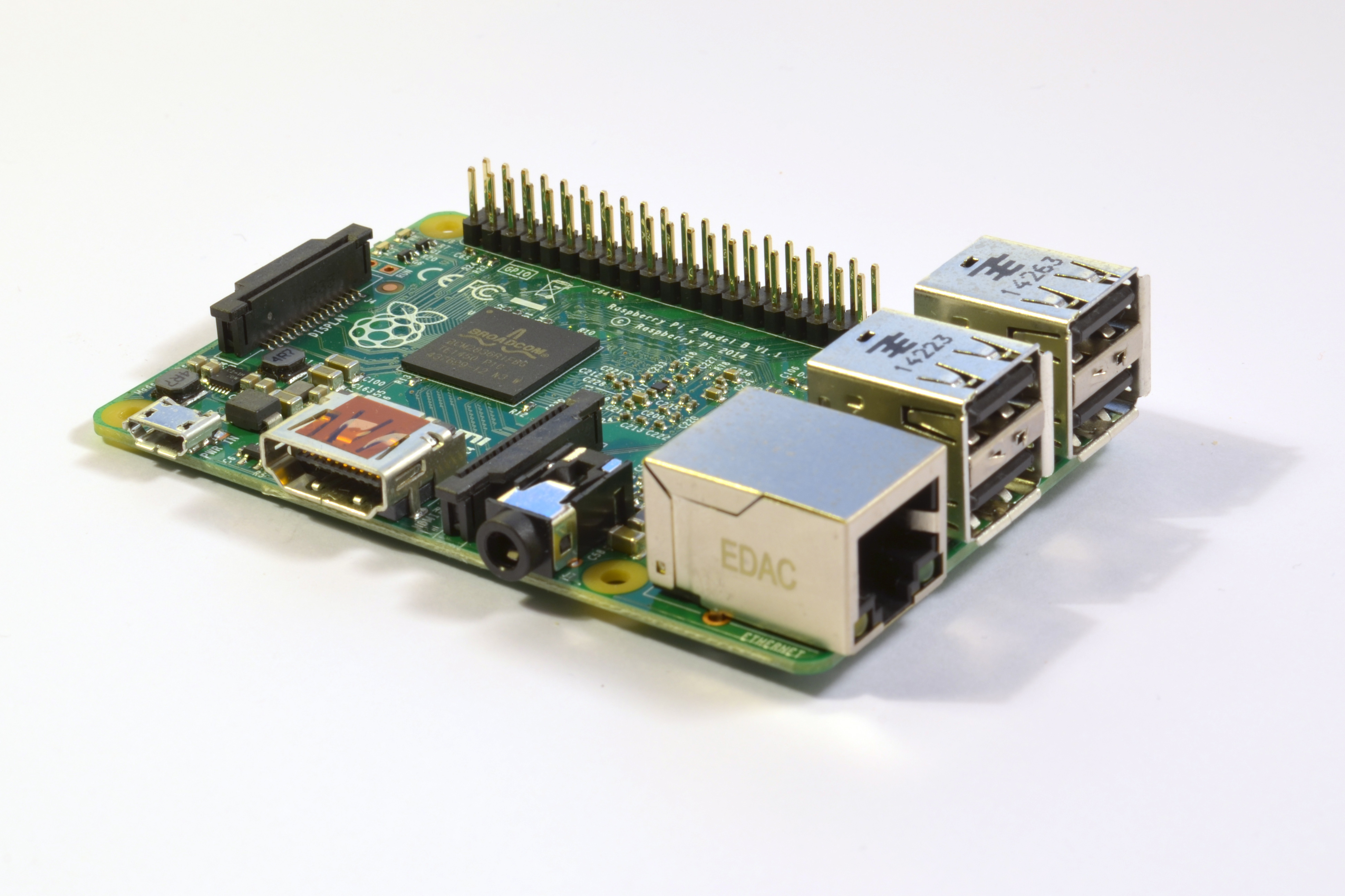 Top half of Raspberry Pi 2 Model B v1.1 seen from front at angle. (Ordered the day after it came out- on Tue 3 Feb 2015- and received a couple of days after that. This one was supplied by CPC/Farnell and "Made in the UK")